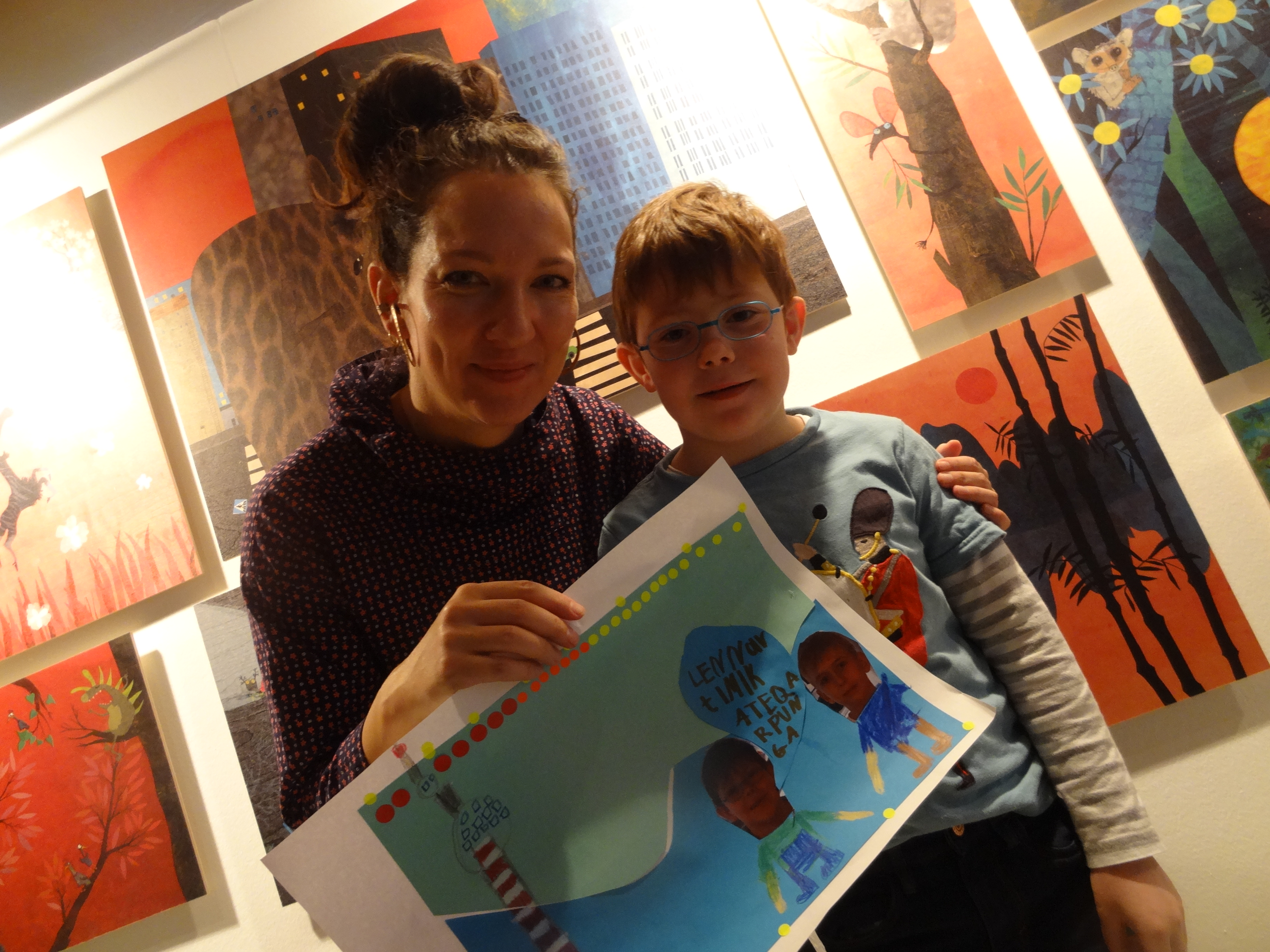 Greenlandic artist Bolatta Silis-Høegh during an illustration workshop in the Nordic Embassies in Berlin (2018)